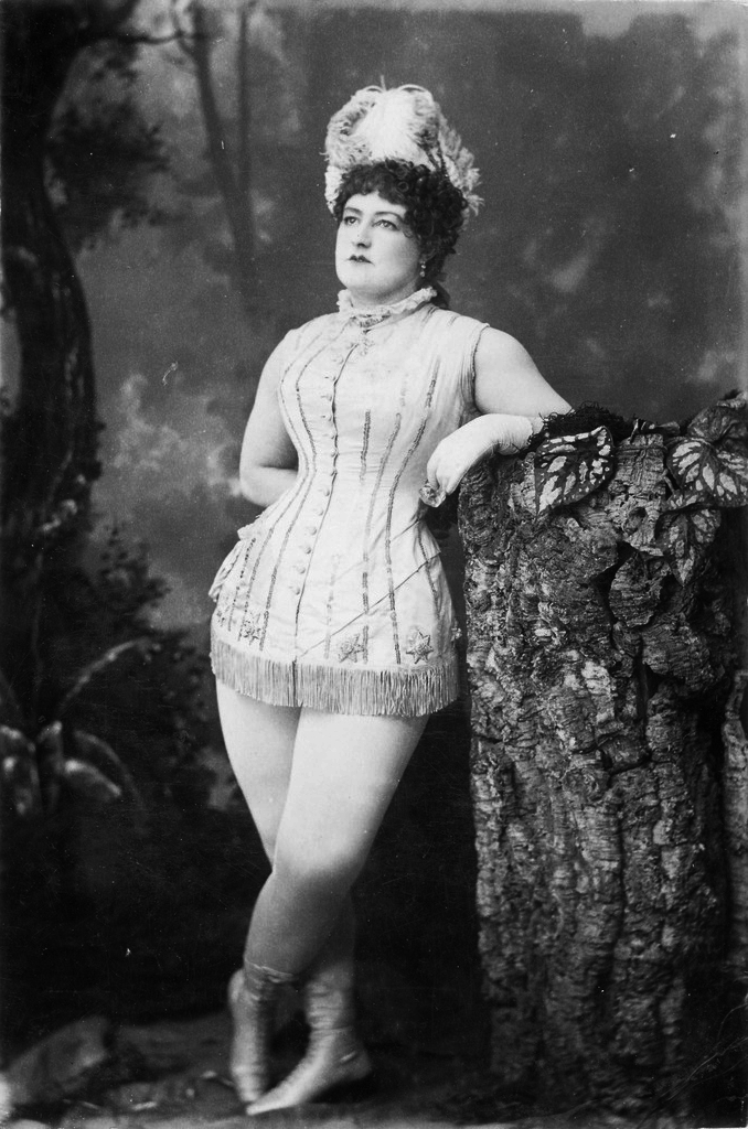 Maggie Oliver, Australian actress and comedian, pictured in costume. From the State Library of South Australia, PRG 280/1/18/291.